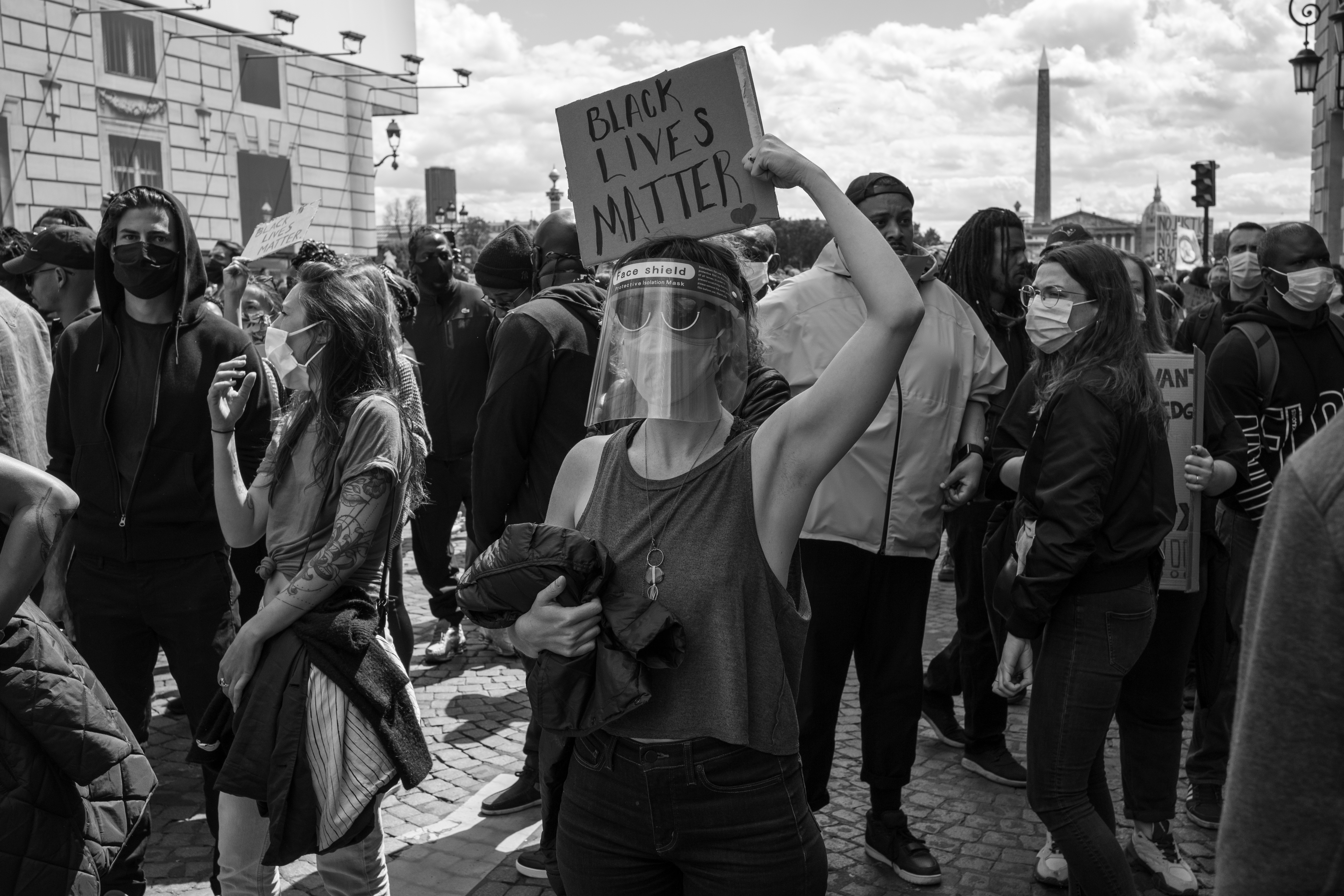 Paris came out on 2020-06-06 for local #blacklivesmatter protests today. A part of it took place in front of the US embassy at Place de la Concorde, with the police fencing off the area widely. Another group gathered at the Champs de Mars facing the Eiffel Tower.